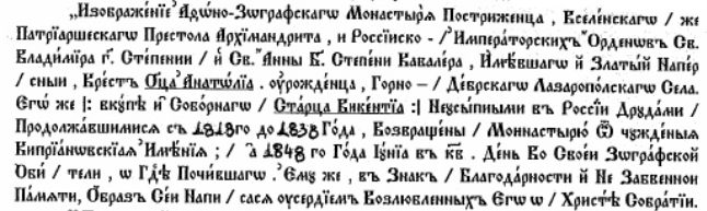 Anatolius of Zograf Portrait Inscription